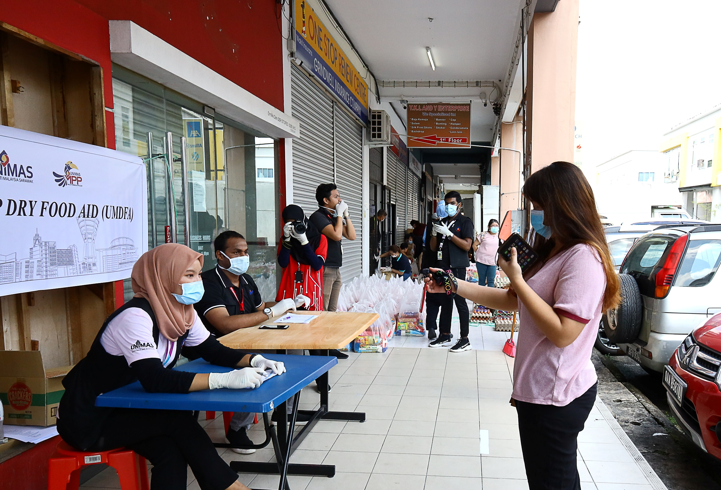 UNIMAS Student Representative Council (MPP) dry food aid for students staying outside campus during Movement Control Order (MCO) due to Covid-19 pandemic. Photo showing a girl wearing face mask flashing her name tag at one metre social distancing to receive food package.